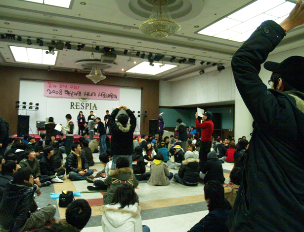 2008 Orientation : College of Natural Science, Hanyang University